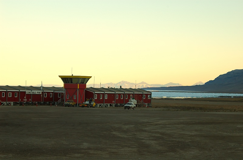 Constable Pynt, East-Greenland. August 2007.